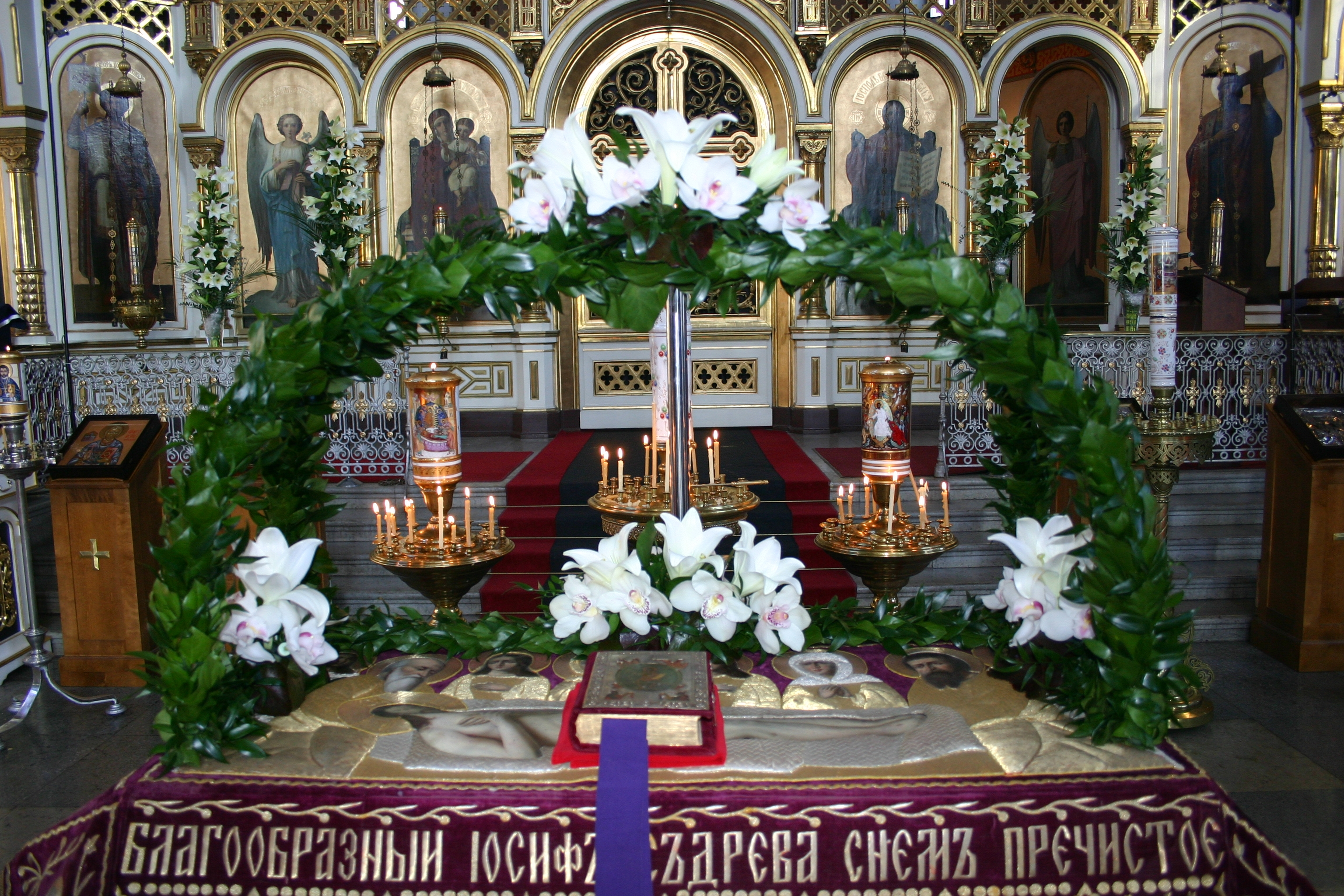 The Epitaphios (embroidered icon of Jesus Christ in the Tomb)